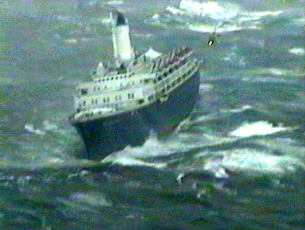 The sinking of the cruise ship SeaBreeze near Cape Charles on December 17, 2000.